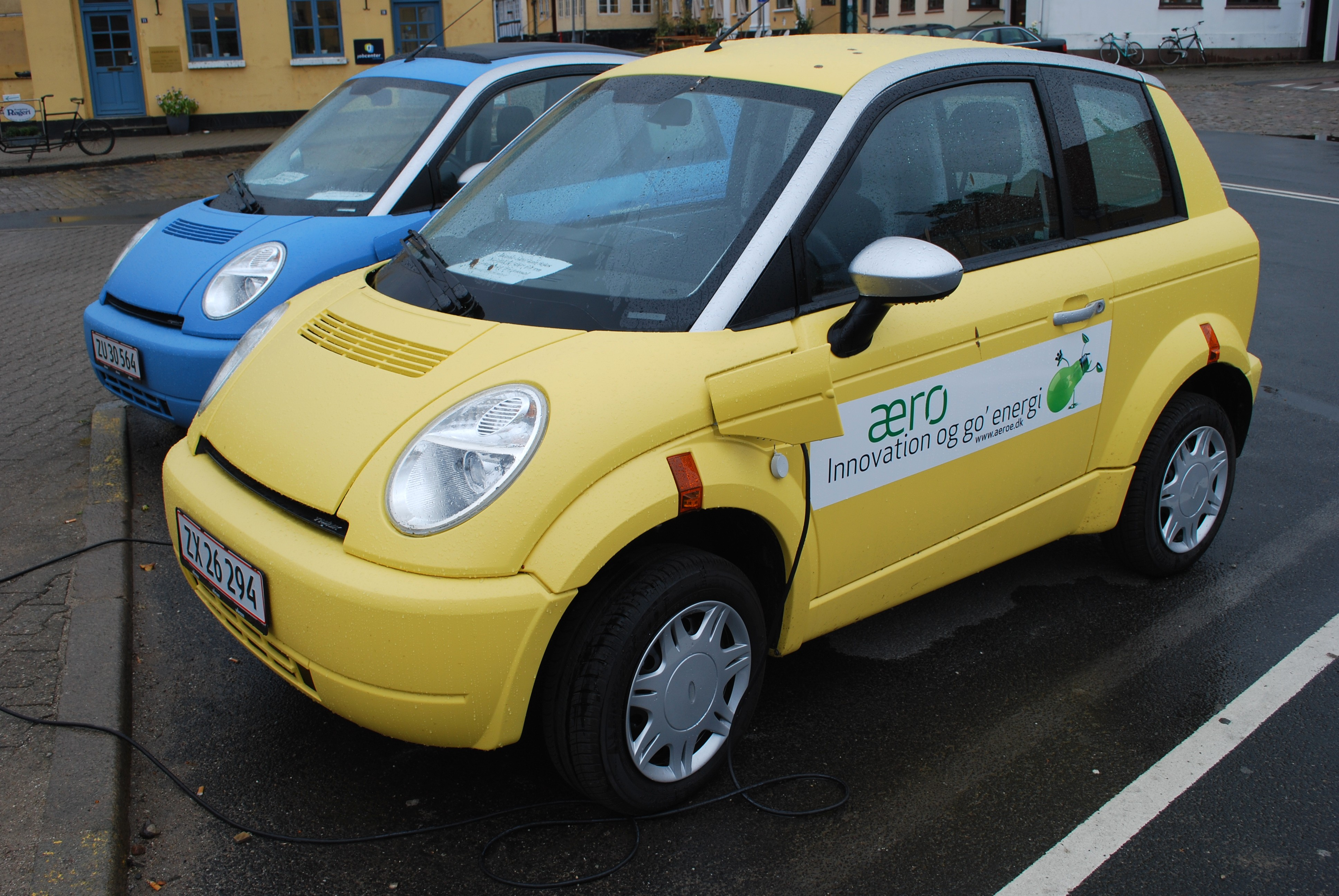 Think electric cars charging in Ærøskøbing